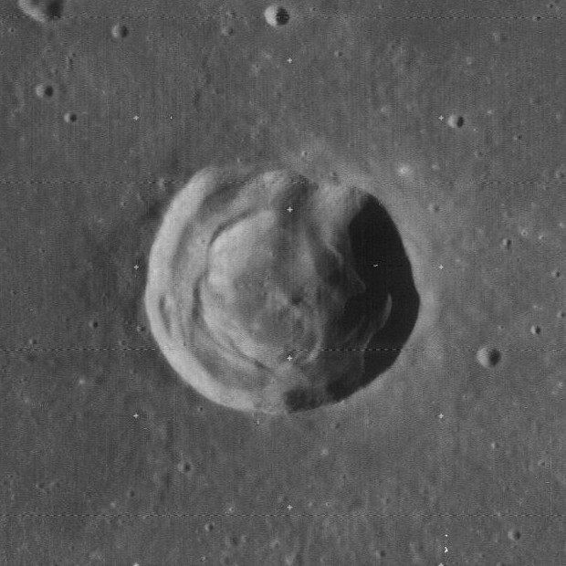 Reprocessed Lunar Orbiter 4 image cropped in Adobe Photoshop to show Galle crater and surrounding terrain. The original image should be public domain as it is a work of the U.S. Government (NASA).